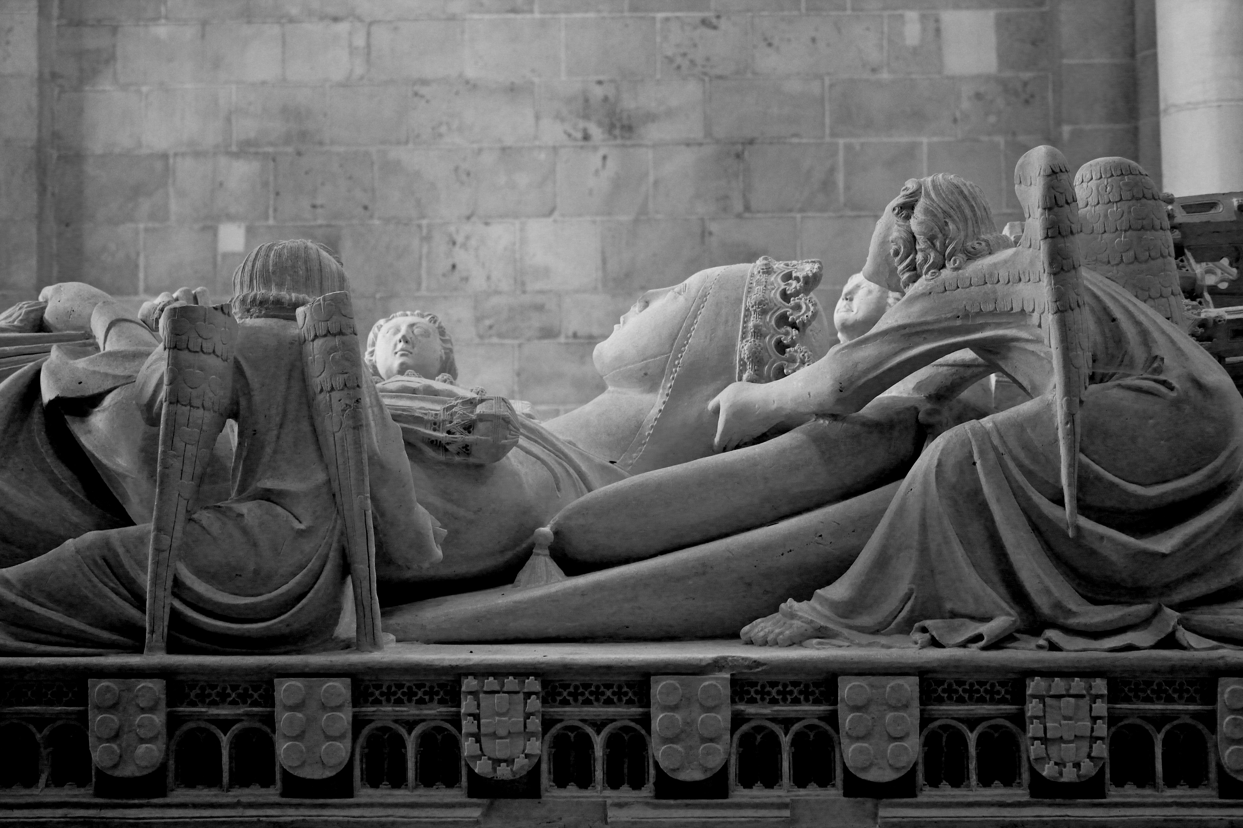 D. Ines, resting her head on angels' hands...